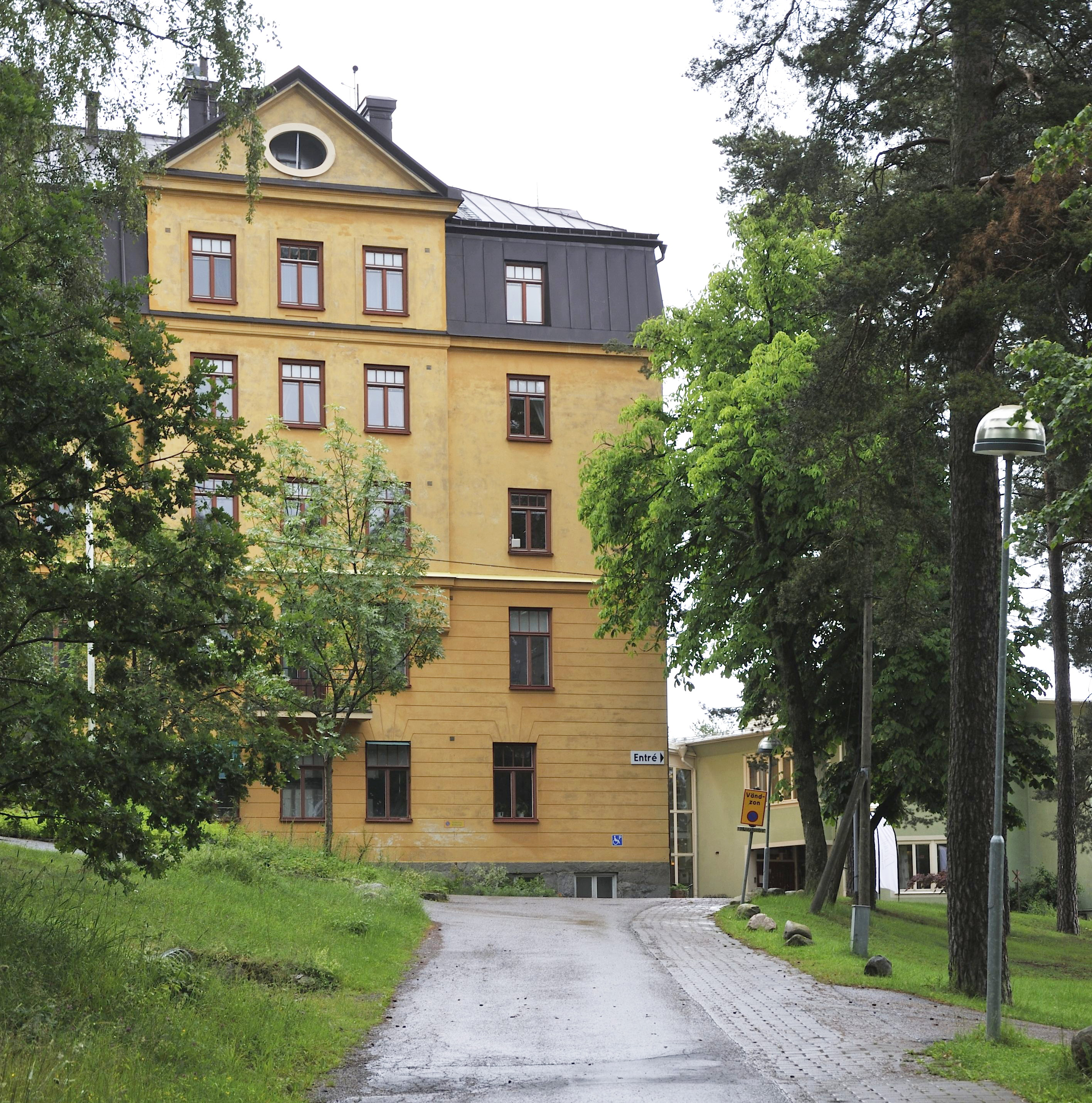 Mainbuilding